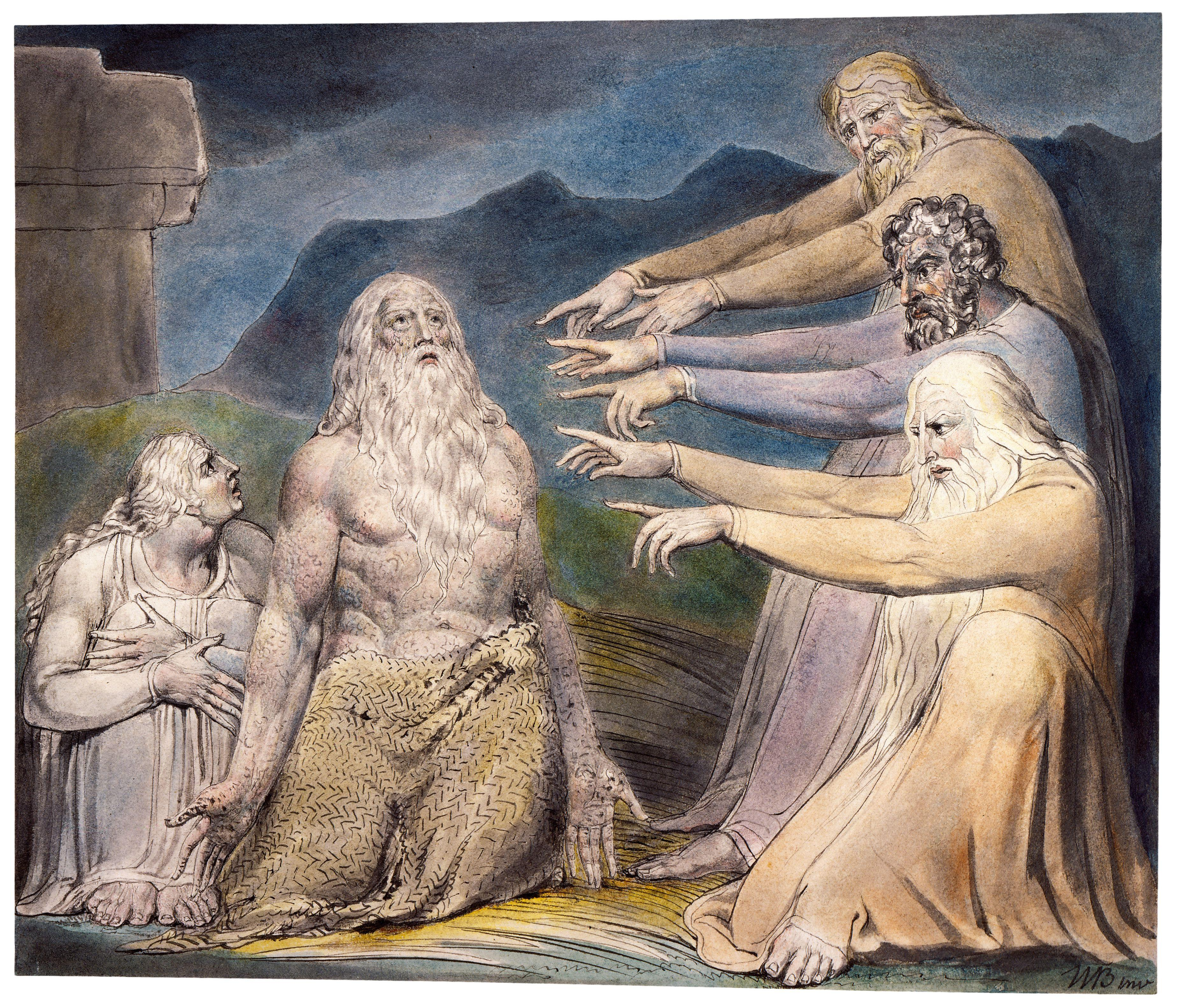 Job Rebuked by His Friends, from the Butts set. Pen and black ink, gray wash, and watercolour, over traces of graphite